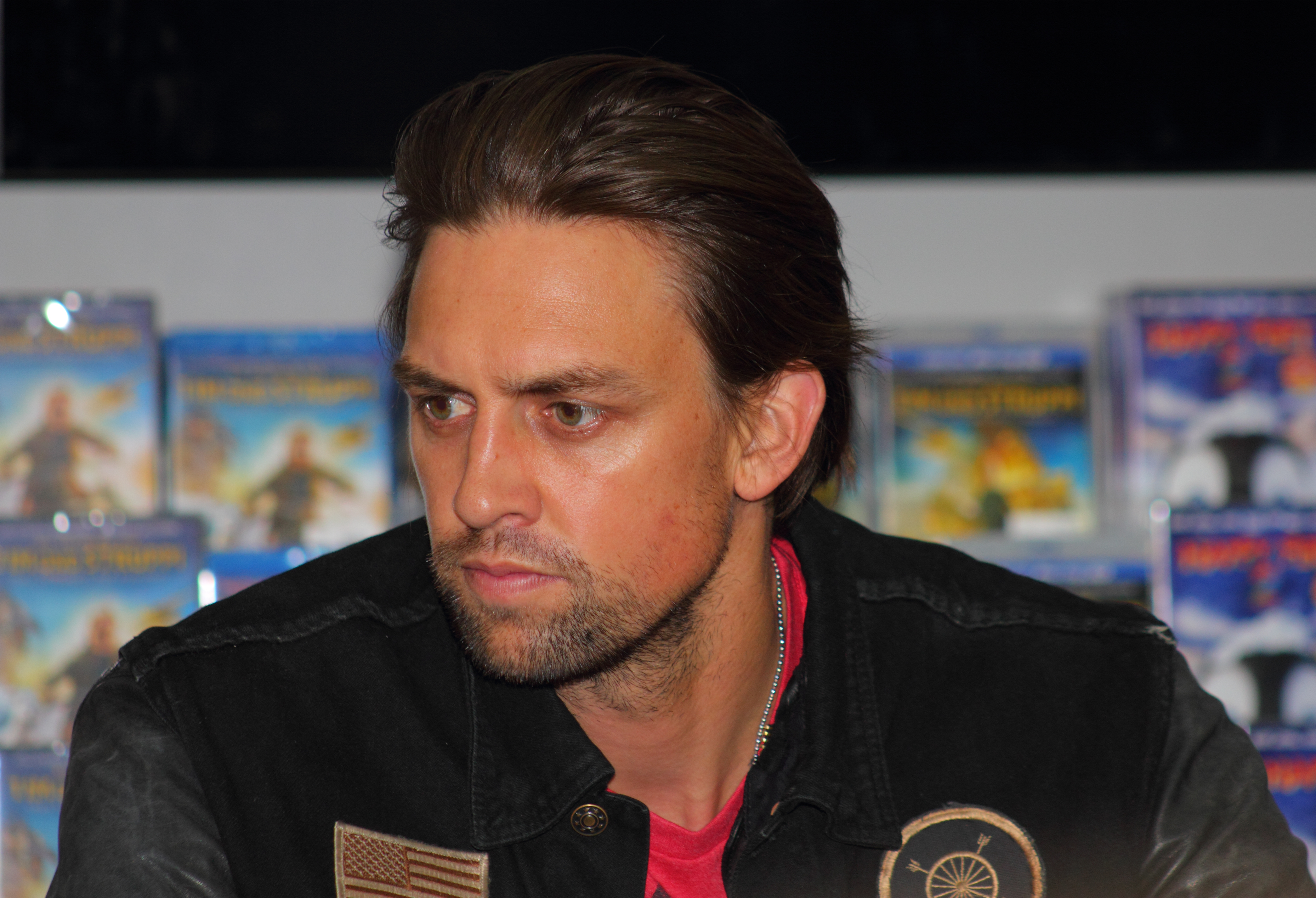 Angels & Airwaves: authographing at Saturn Cologne-Hansaring. The picture shows David Kennedy.